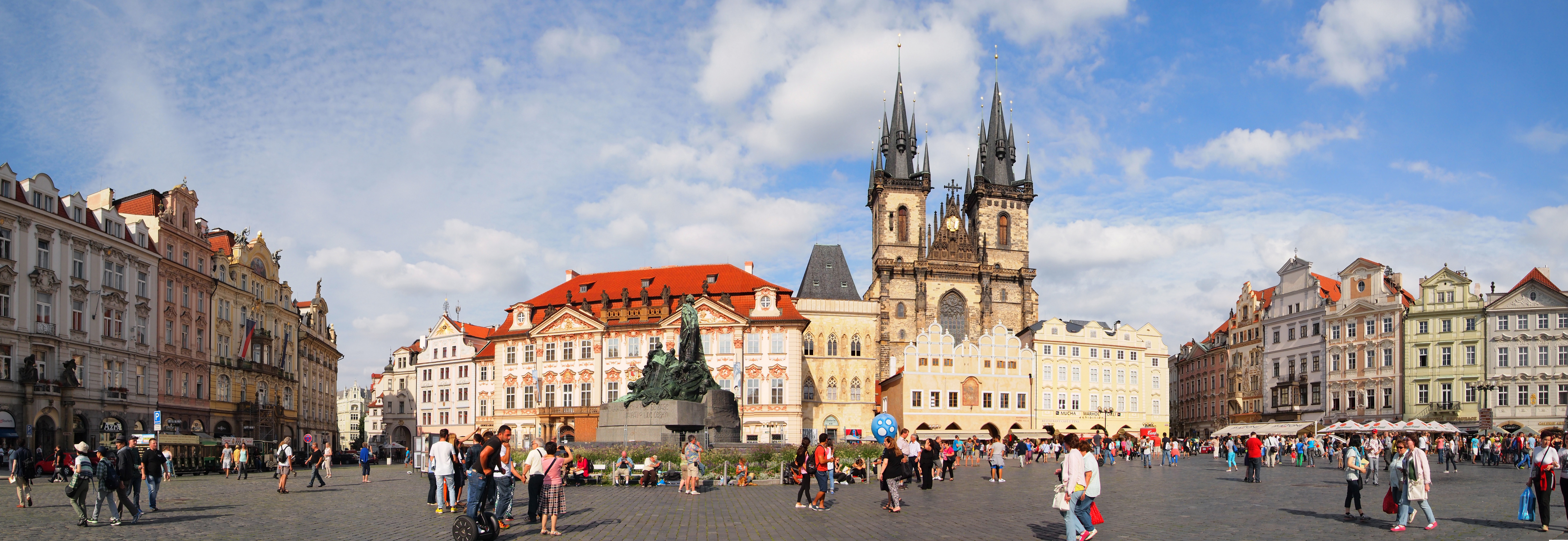 View on the Old Town Square, Prague. This photograph was taken with an Olympus E-PL1